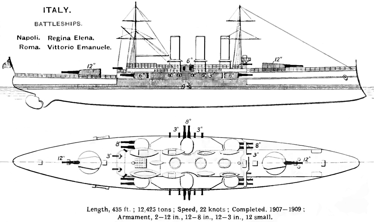 Right elevation and deck plan diagrams depicting Italian Regina Elena class battleship. Numbers on top diagram show armour thickness (shaded areas) in inches. Numbers on bottom diagram show size of guns in inches.